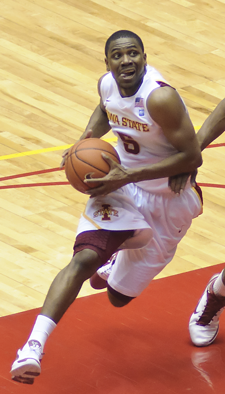 Darion "Jake" Anderson guarded by an Oklahoma player